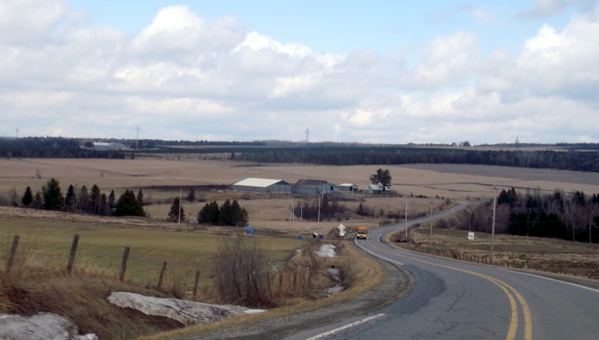 Curves on the road 206